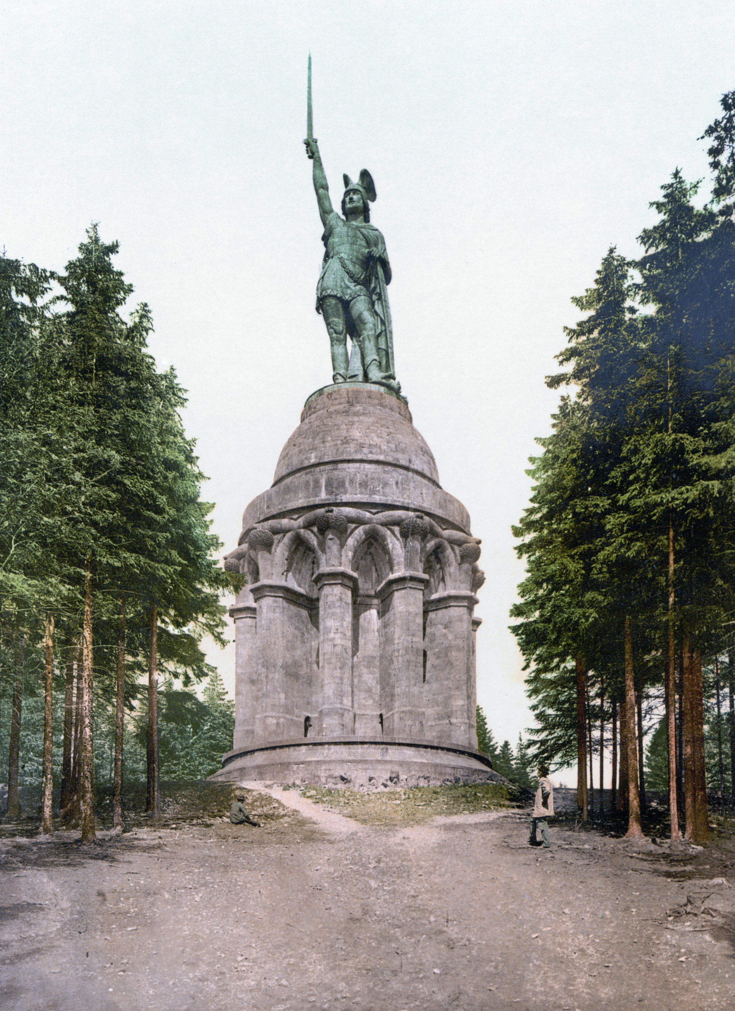 Hermannsdenkmal (Hermann's Memorial) in Germany. Photochrom print (color photo lithograph)